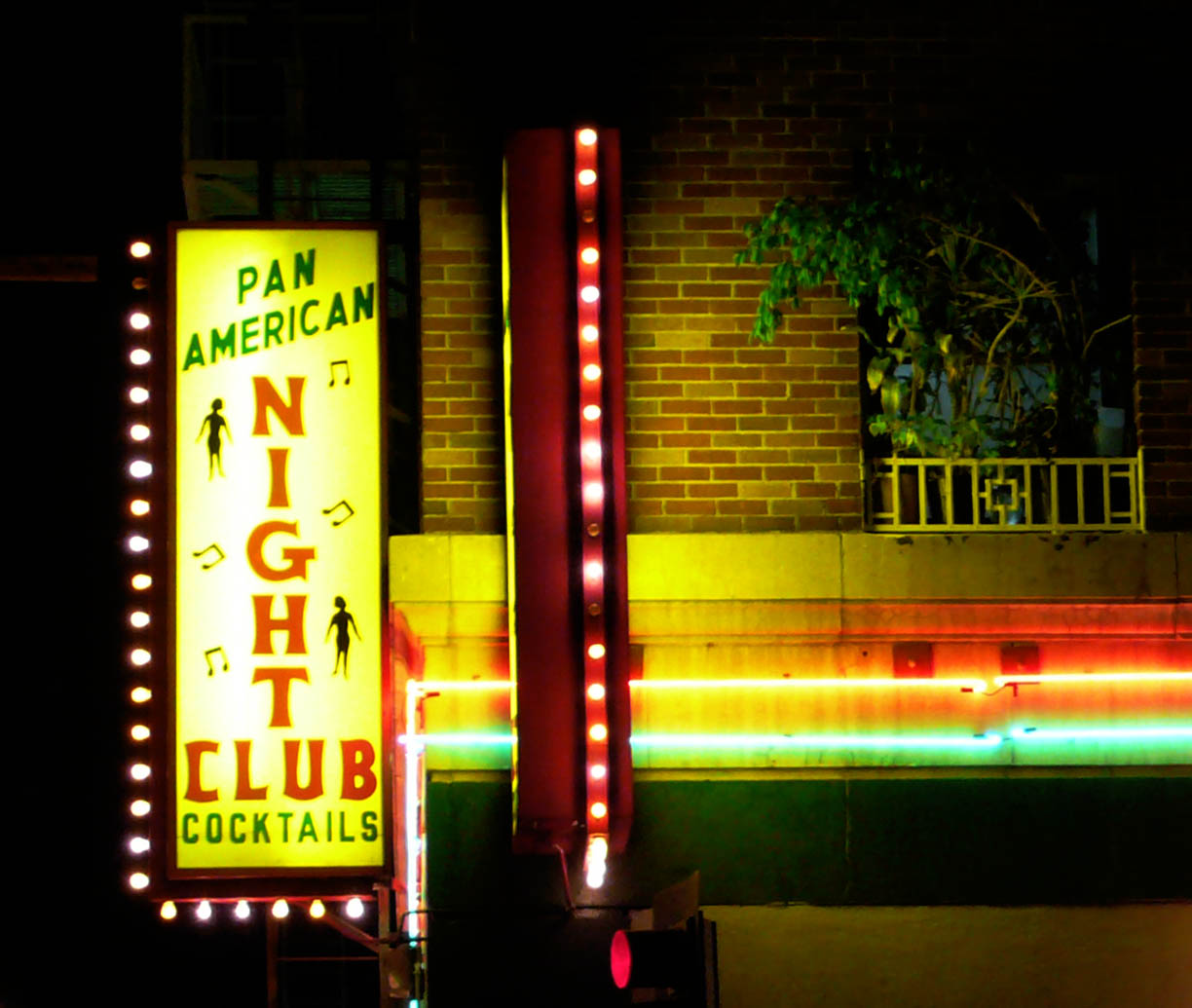 Pan American Night Club in Los Angeles, USA